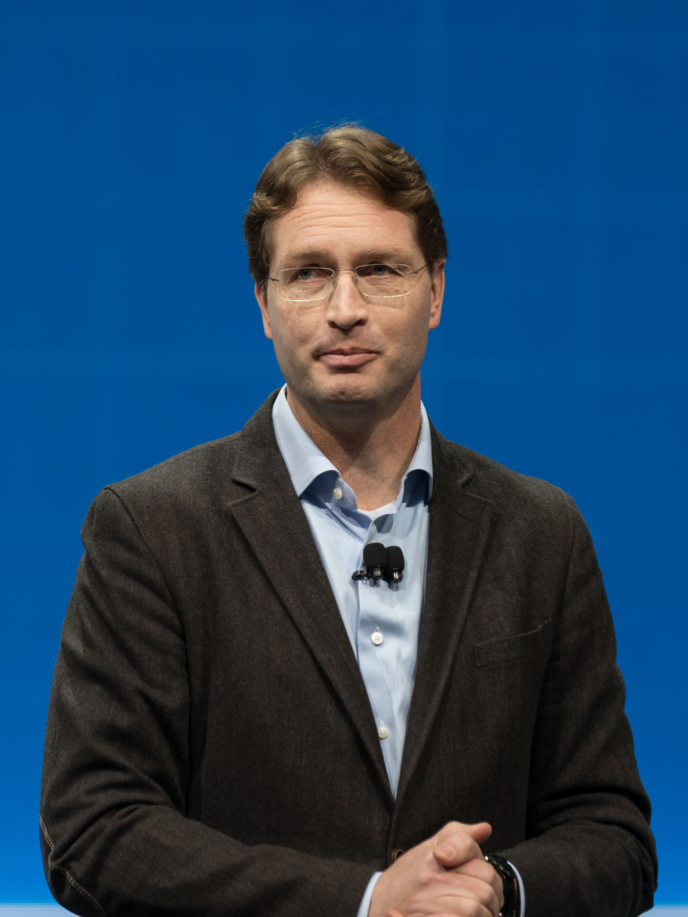 Geneva International Motor Show 2018